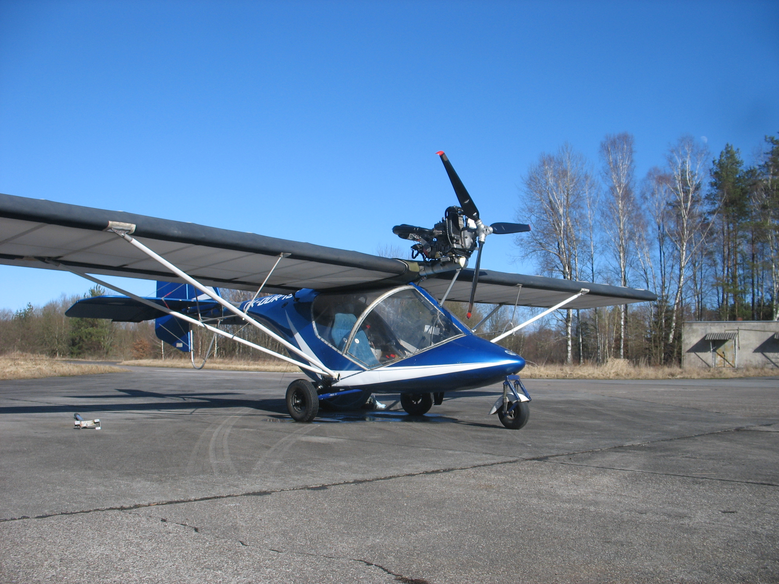 OK-OUR-15 TL-32 Day